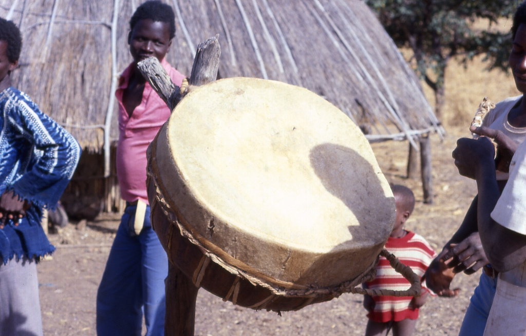 Signal drum, Ndebu, southeast Senegal (West Africa)